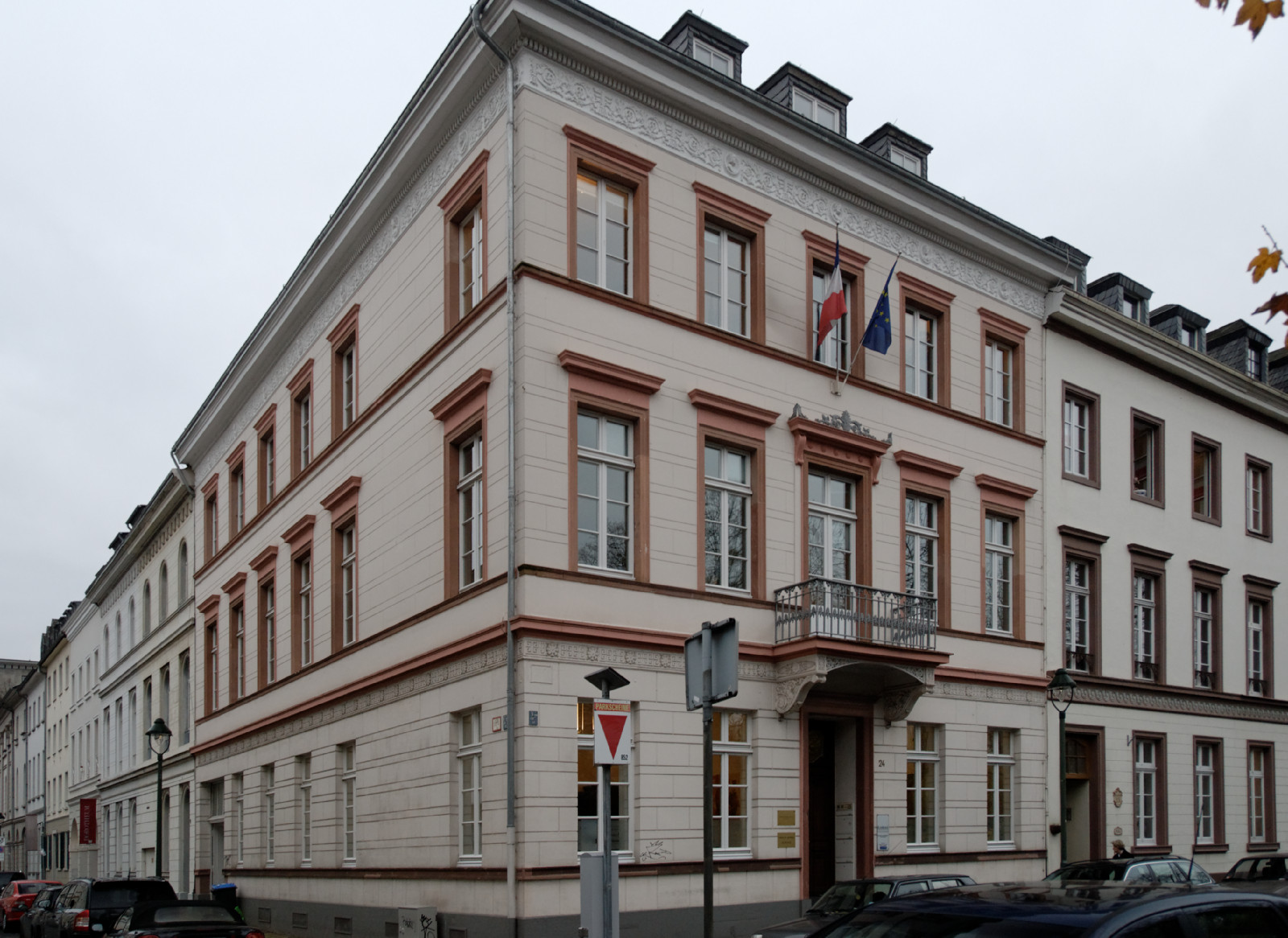 House Poststraße 24 in Düsseldorf-Carlstadt, Germany